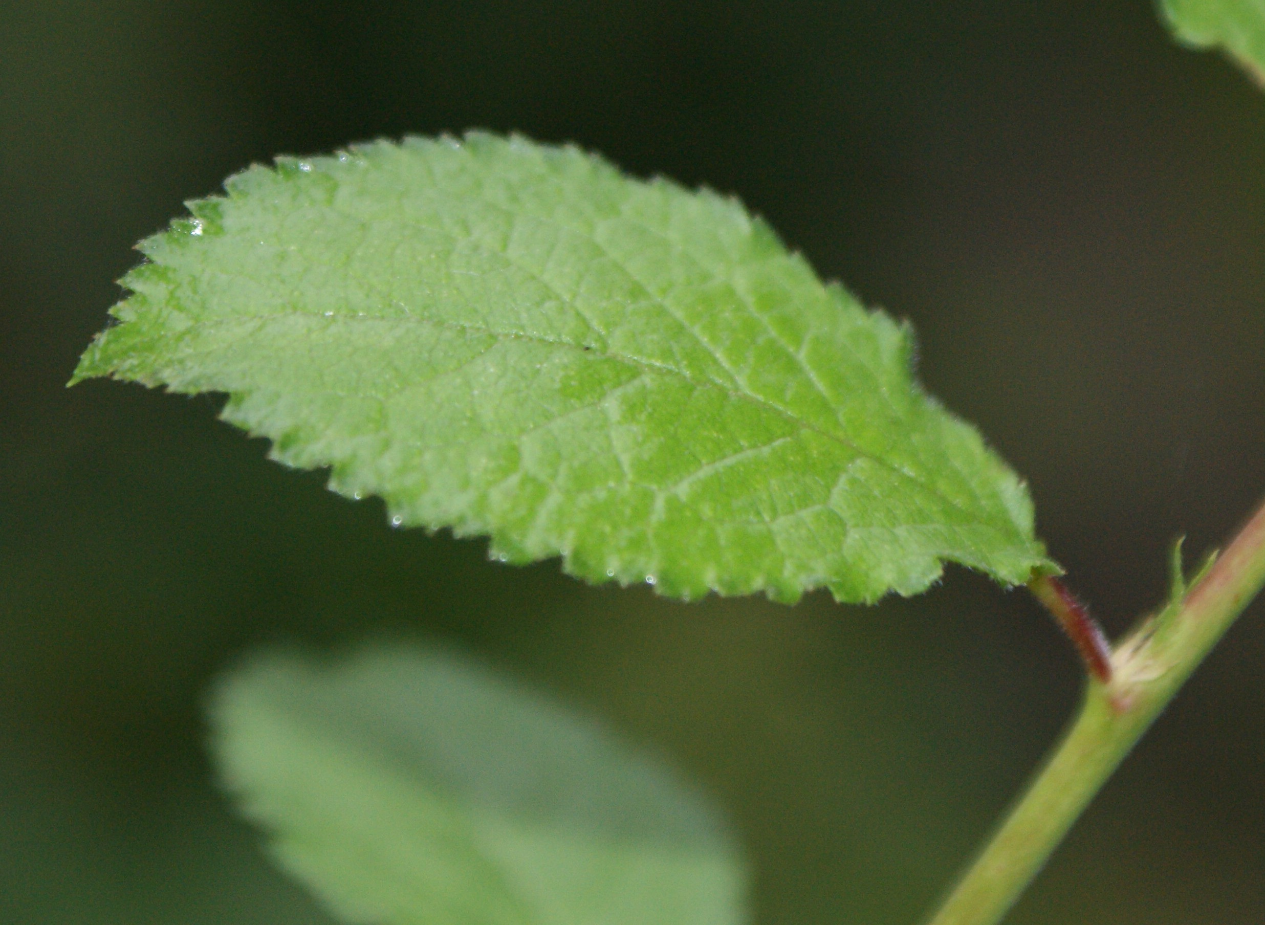 Prunus spinosa, leaf